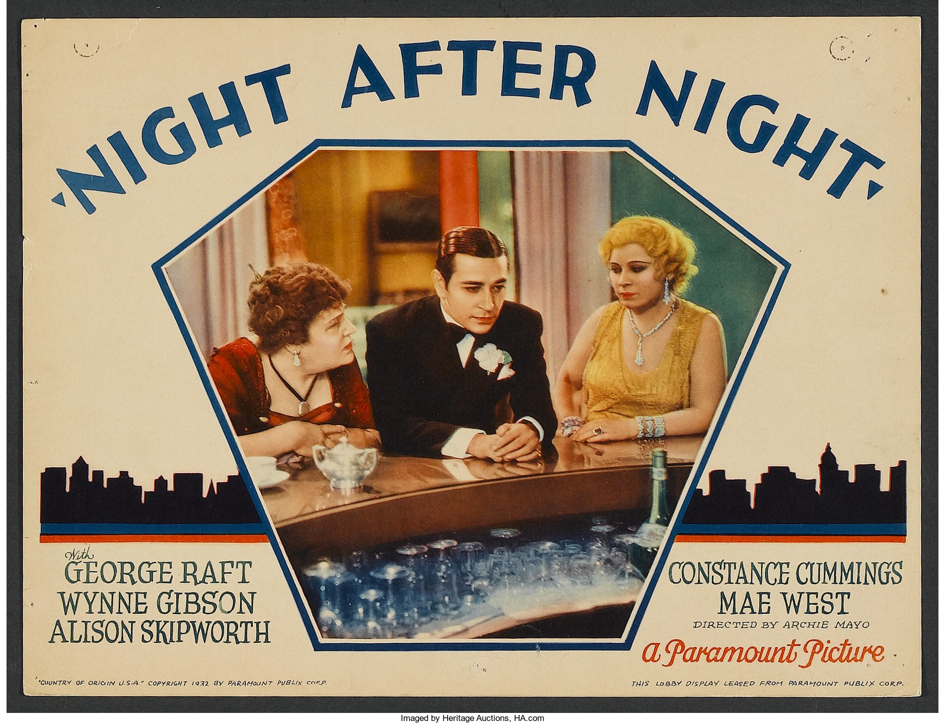 Lobby card for the American film Night After Night.